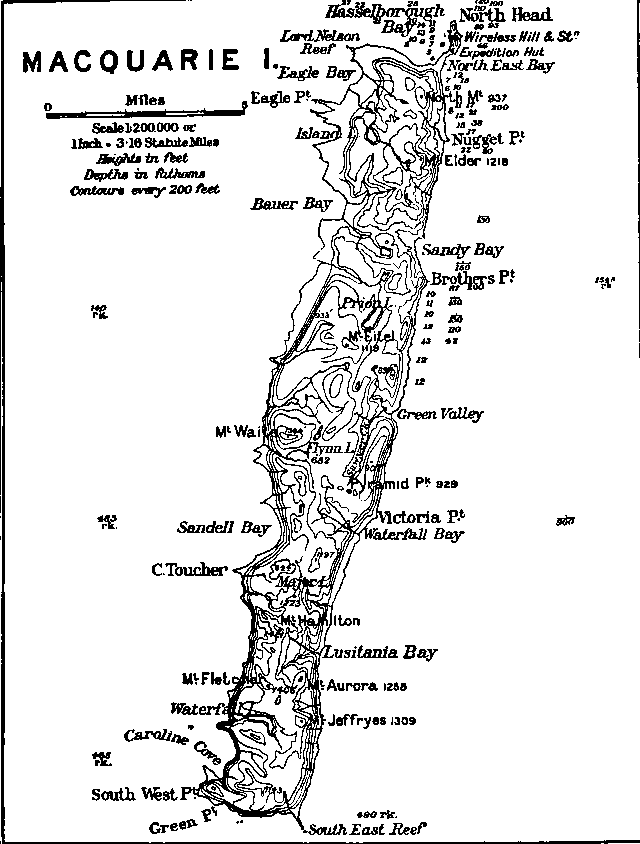 Contour map of Macquarie Island.